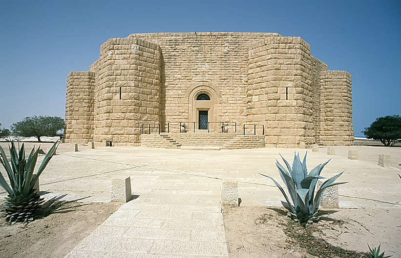 German War Cemetery, el-Alamein, Egypt